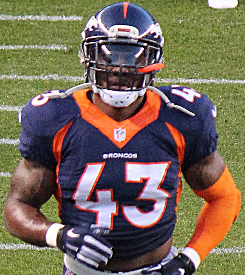 T. J. Ward, a player on the National Football League.